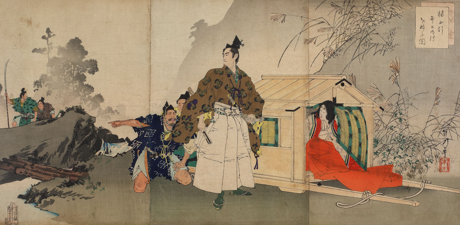 "Kusunoki Masatsura Ben no Naishi o sukū zu" ("Kusunoki Masatsura rescued Lady Ben no Naishi") by Mizuno Toshikata